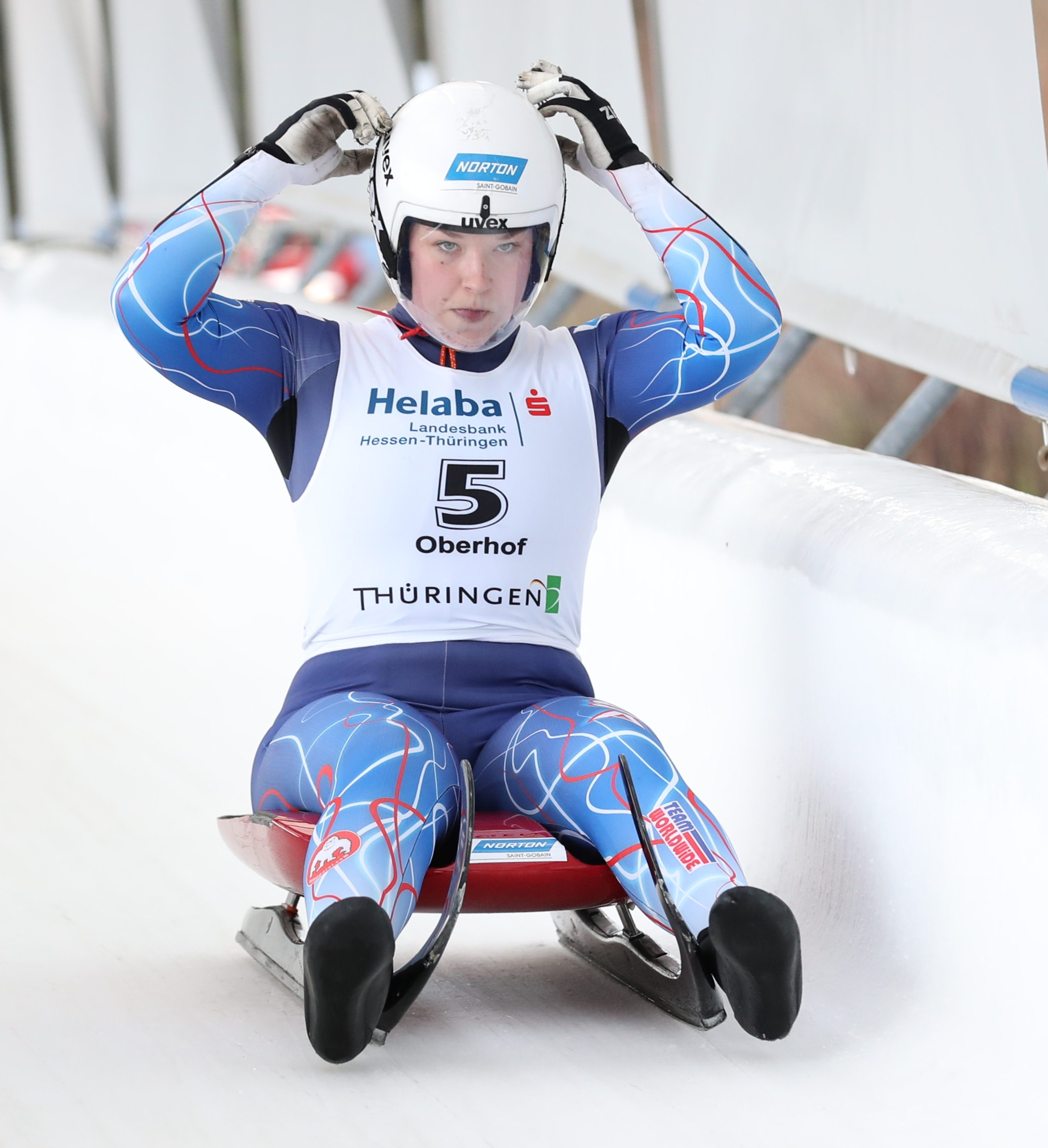 Women's Nations Cup at the 2019/20 Oberhof Luge World Cup